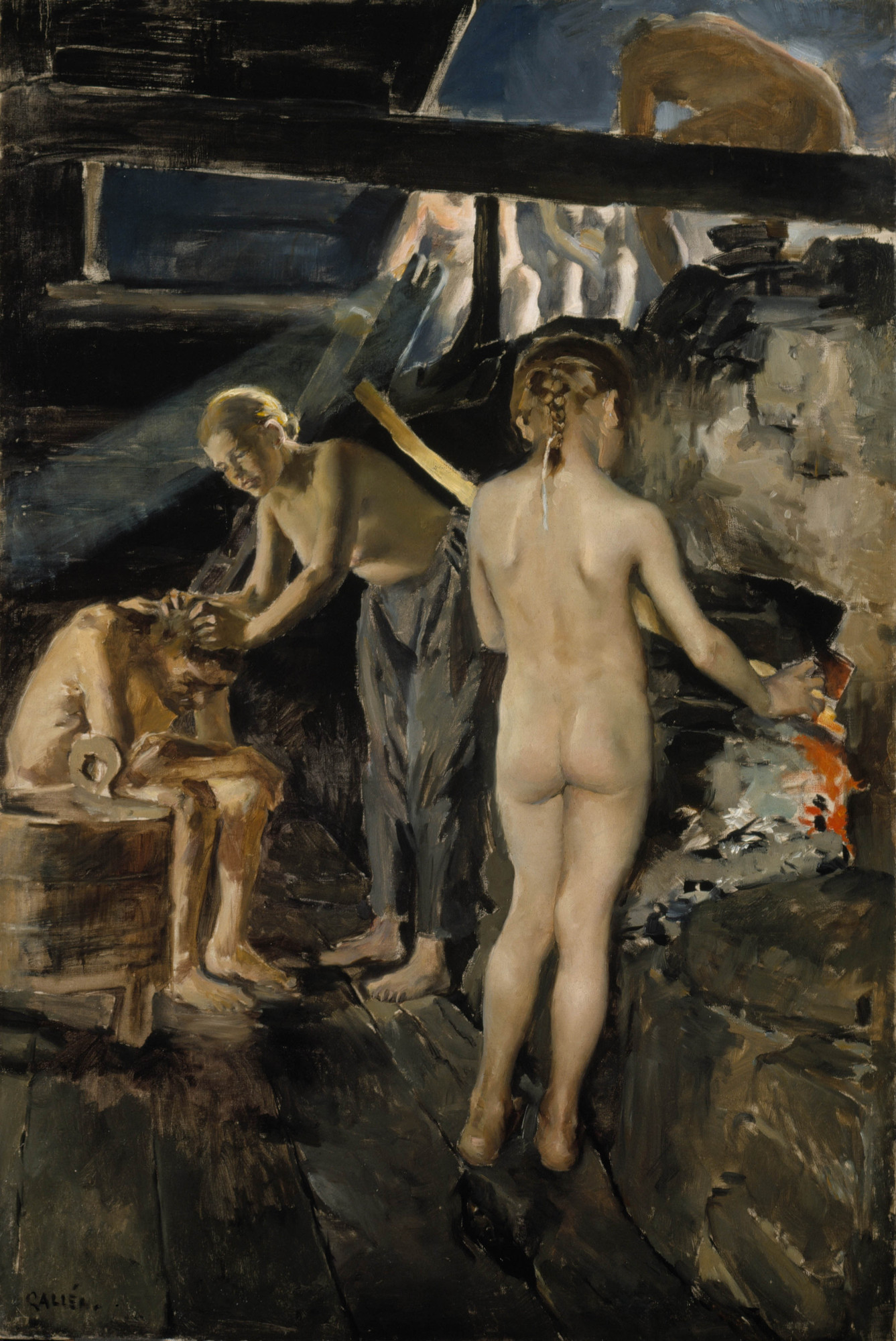 In the sauna